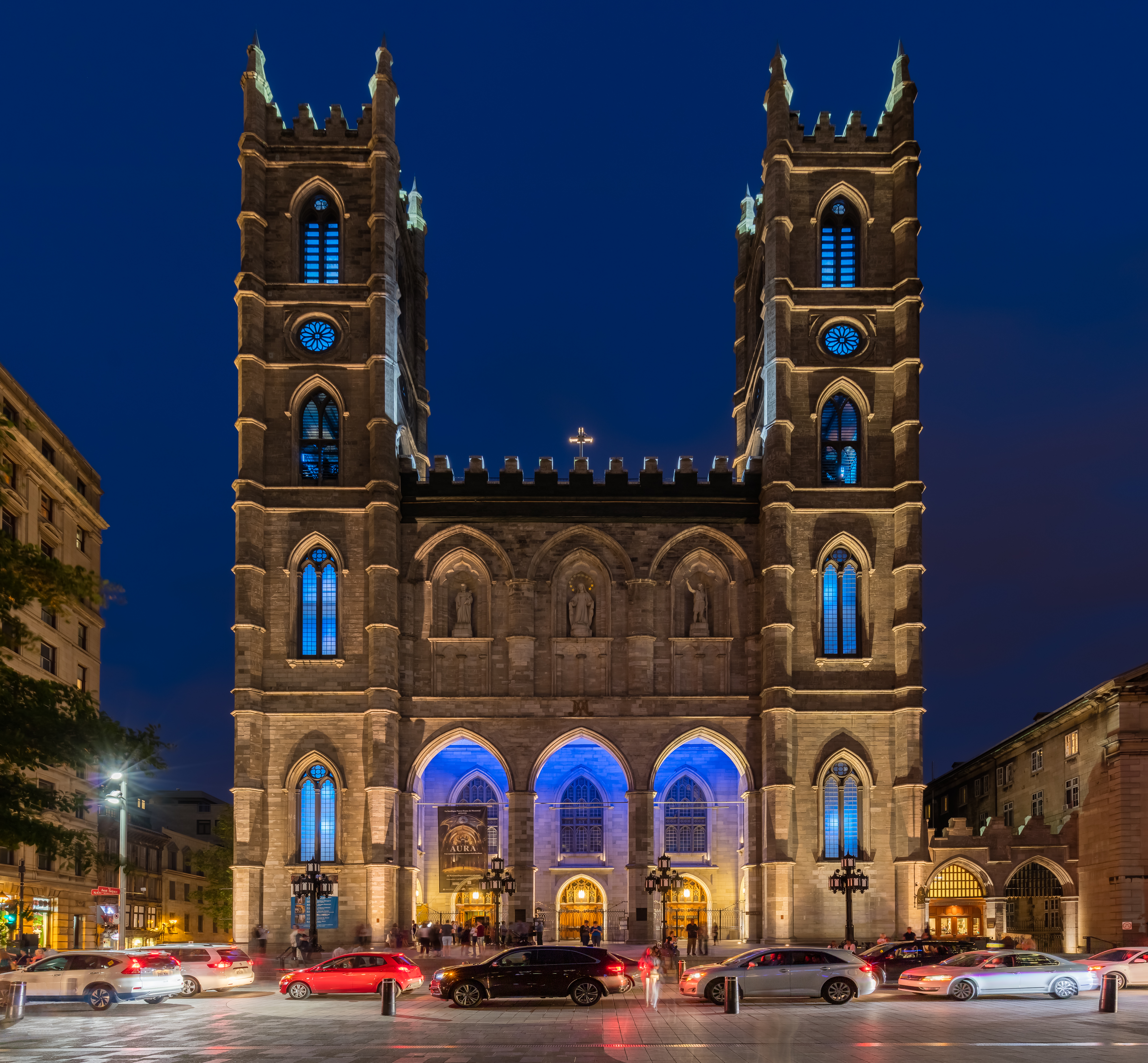 Notre-Dame de Montréal Basilica